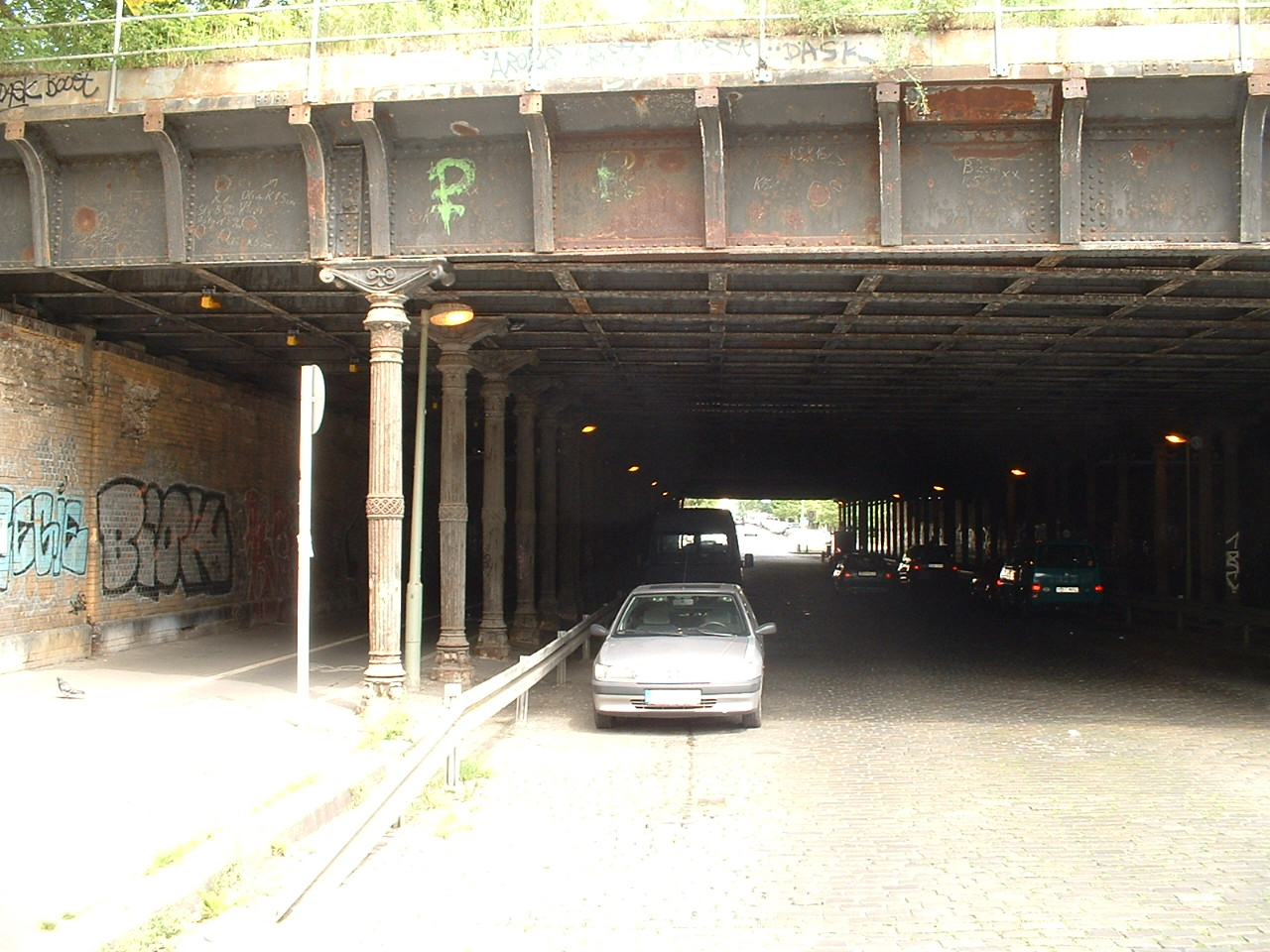 Hartungsche Saeule total, Berlin, Gleimtunnel